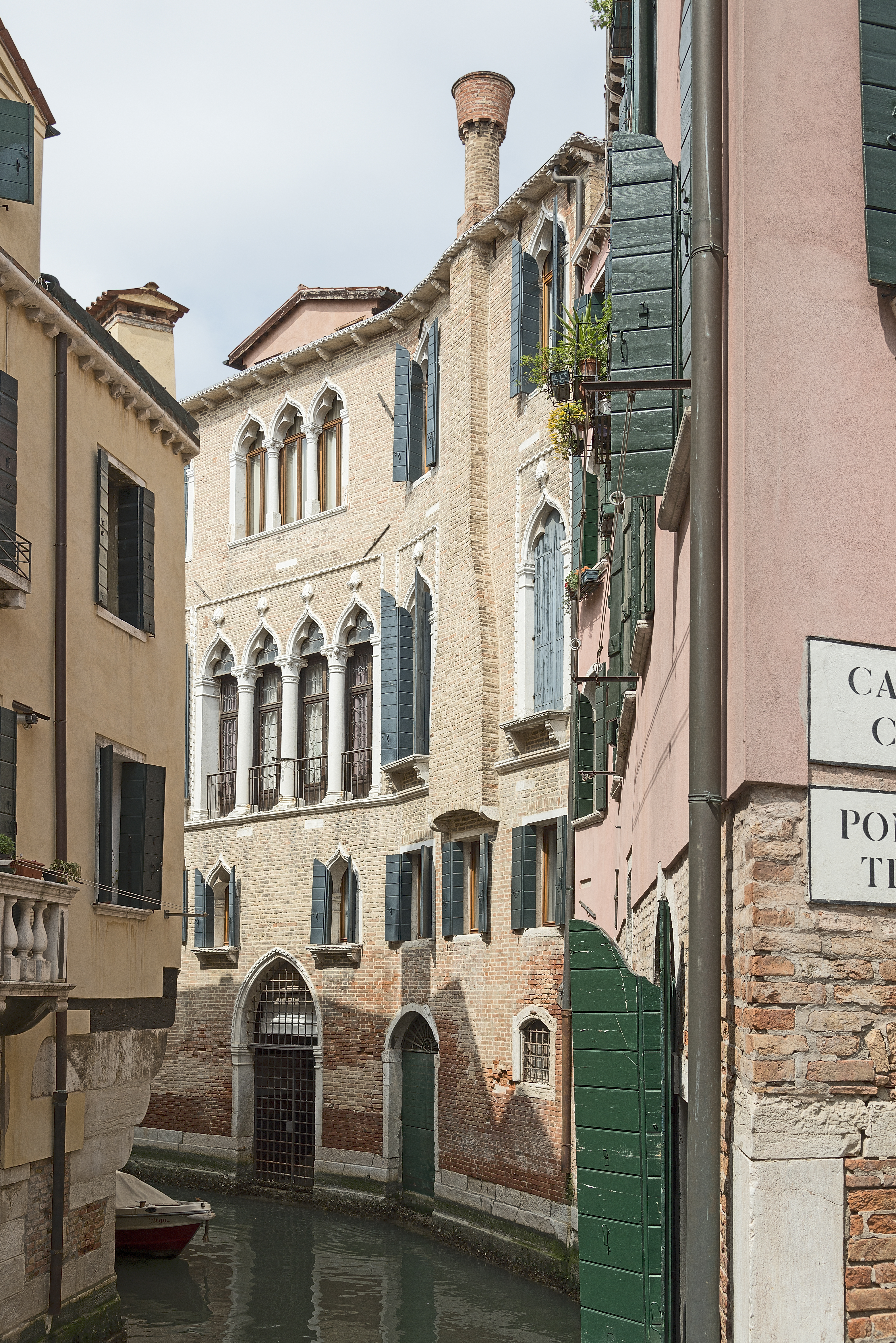 Palazzo Centani Venice Facade on Rio di San Tomà - Birthplace of Carlo Goldoni